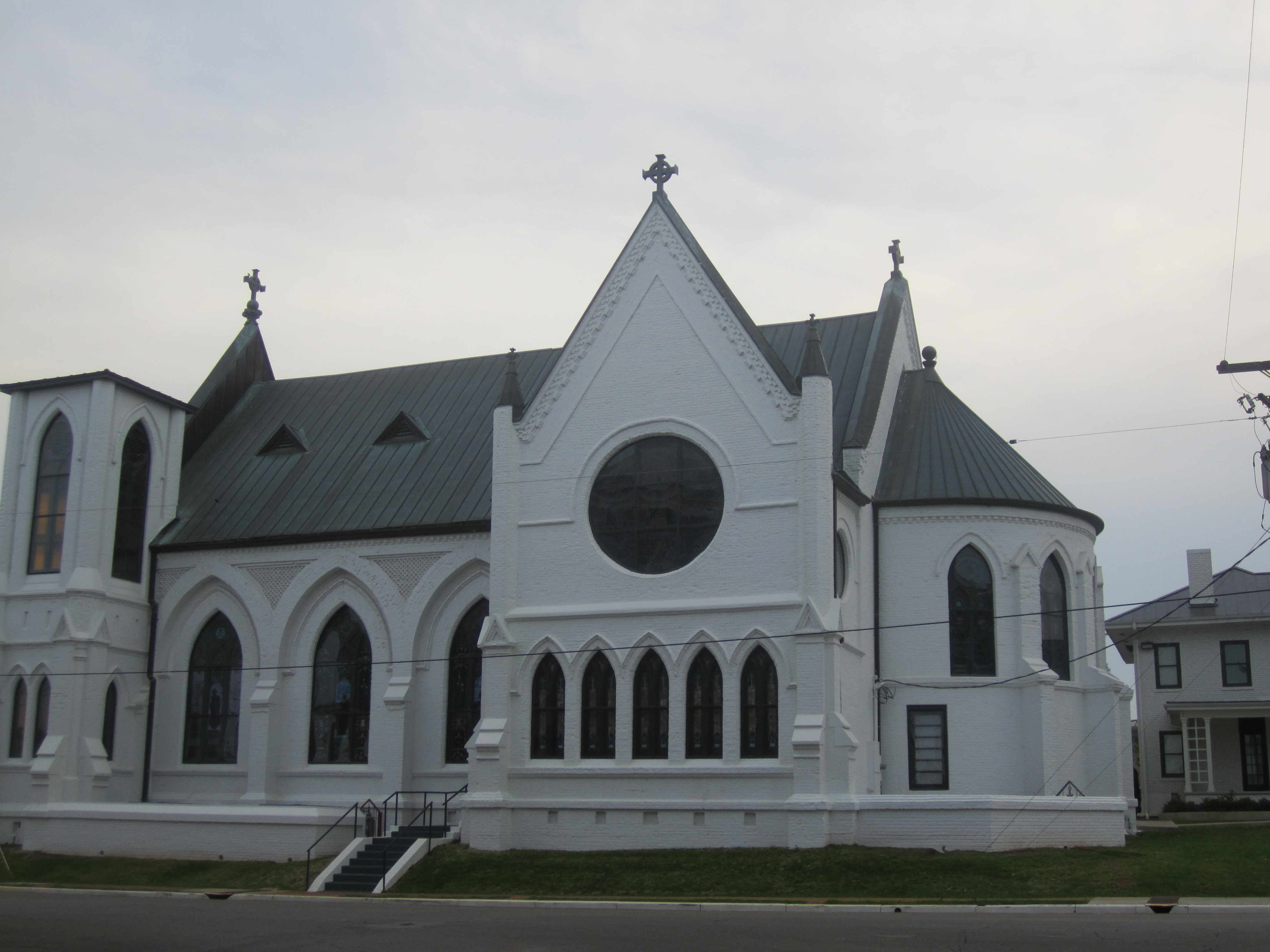 I took photo of Sacred Heart Catholic Church in Palestine, TX, with Canon camera.